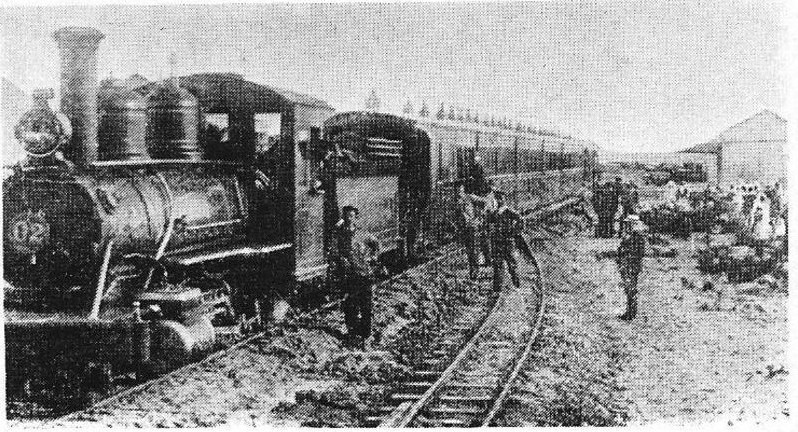 Cape Government Railways narrow gauge Baldwin 2-6-0 no. 2 arrives at Hopefield. The line from Kalbaskraal to Hopefield opened on 28 February 1903.